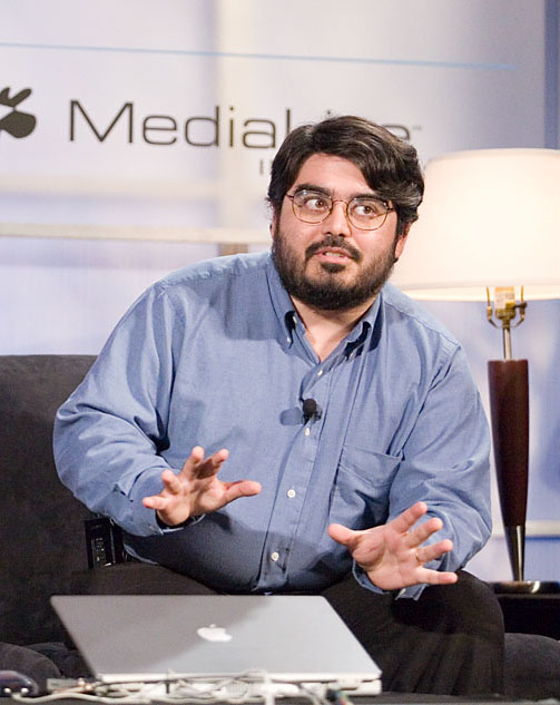 Raph Koster at the Web 2.0 Conference 2005.